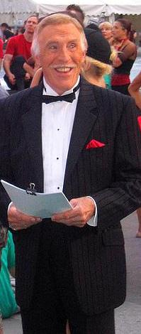 Cropped pic of original pic released into public domain by author but then cropped by SqueakBox because of privacy concerns of others in the picture